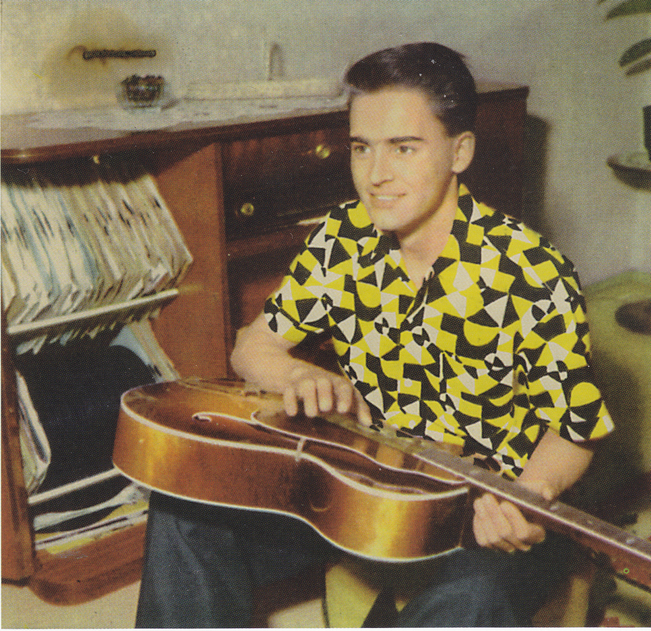 Lasse Liemola year 1960